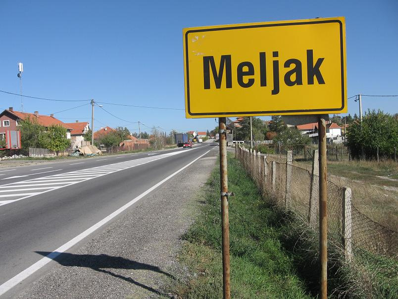 En